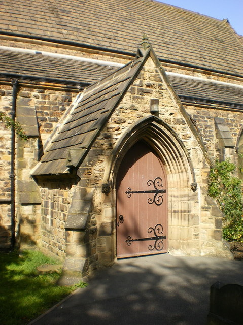 The Parish Church of St Mary the Blessed Virgin, Gomersal, Porch, near to Gomersal, Kirklees, Great Britain.